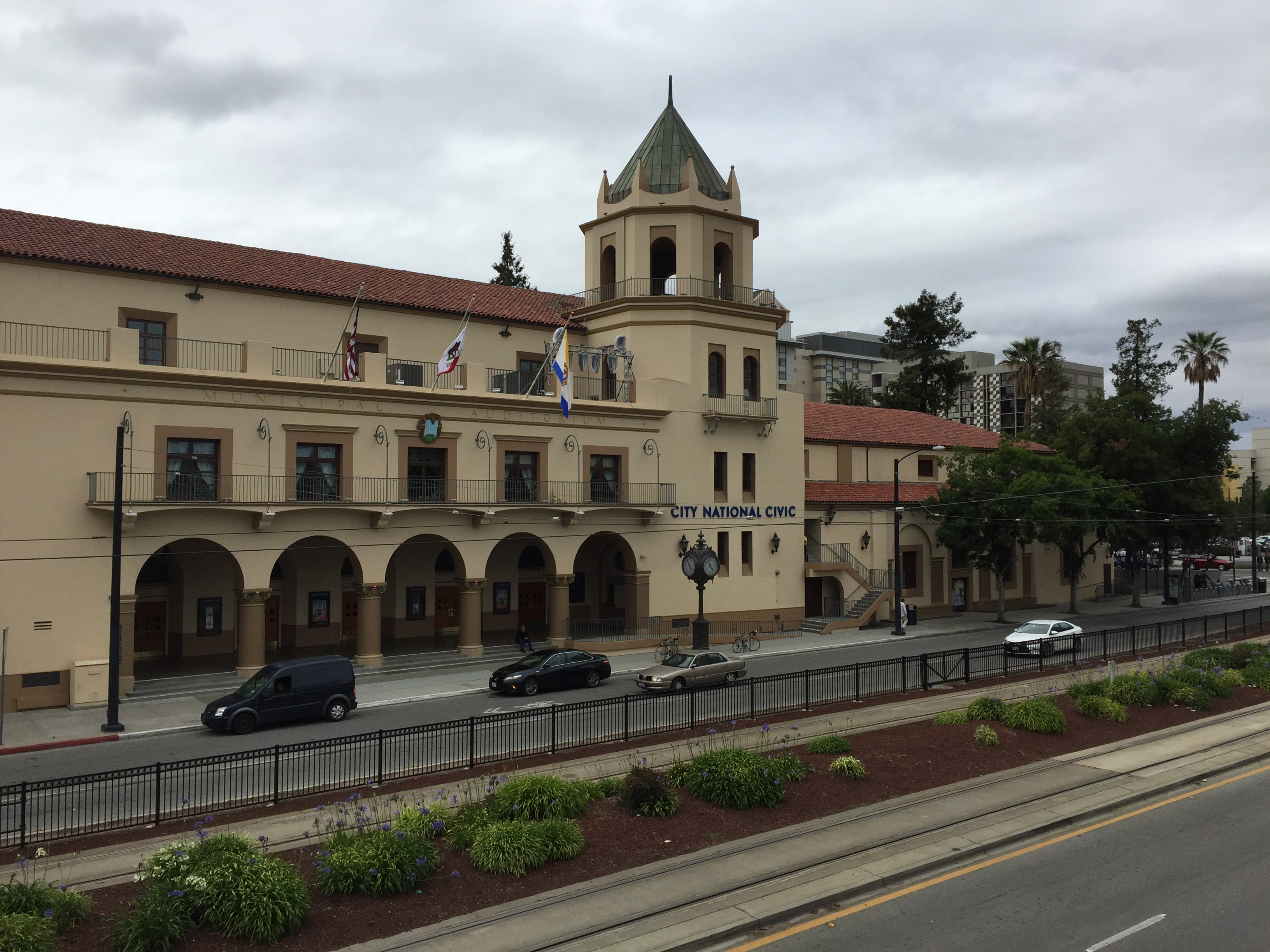 City National Civic and Montgomery Theater in San Jose, California, United States, taken from the San Jose Convention Center’s second-story Plaza Terrace. A VTA light rail line runs along the bottom in the median of West San Carlos Street. The Convention Center station is just beyond the left edge of the photo.